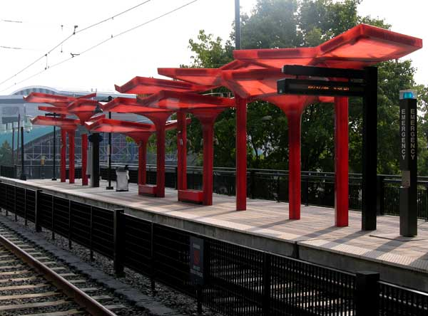 3rd Street LYNX station, along the Charlotte, North Carolina, LYNX Blue Line light rail.